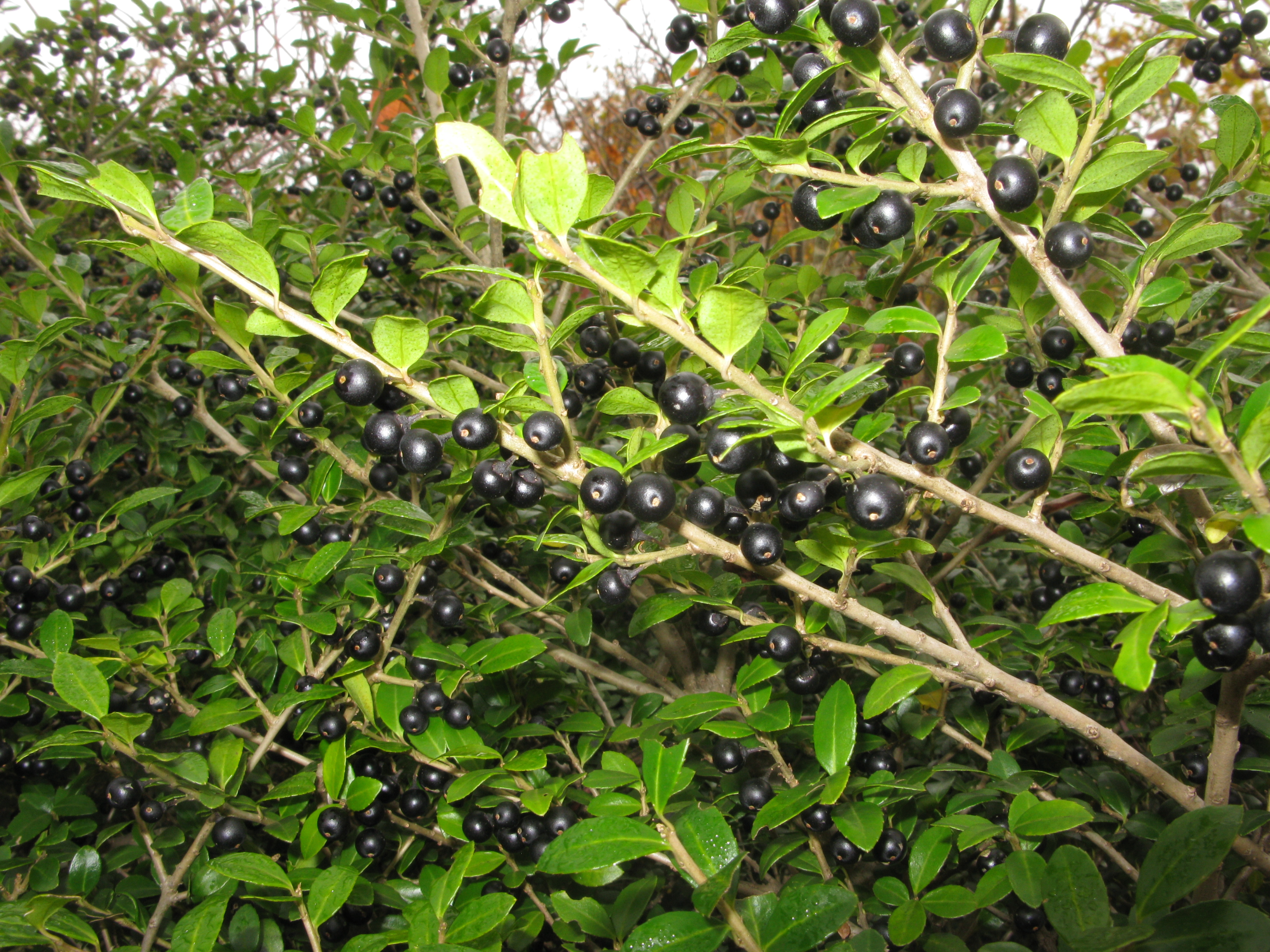 Ilex crenata, Aizu area, Fukushima pref., Japan